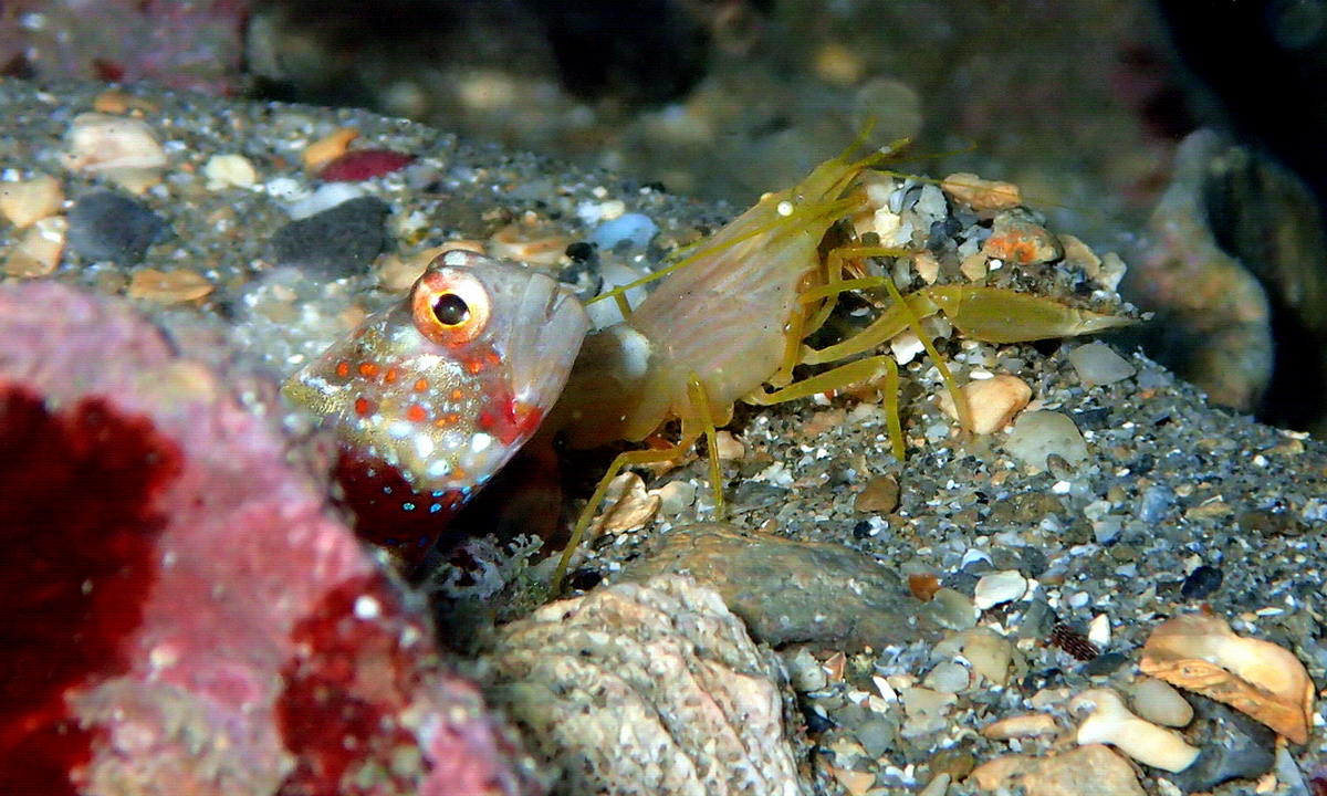 This Gorgeous prawn-goby (Amblyeleotris wheeleri) and blind shrimp was found at the shallow water in Pitou Cape, a famous diving site located at northeast coast of TAIWAN. The photo was taken by Vincent C. Chen on June 6, 2015